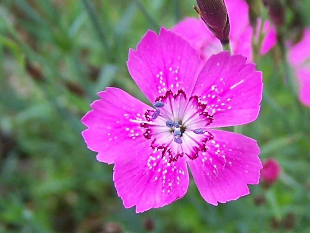 Dianthus gratianopolitanus (cultyvar)